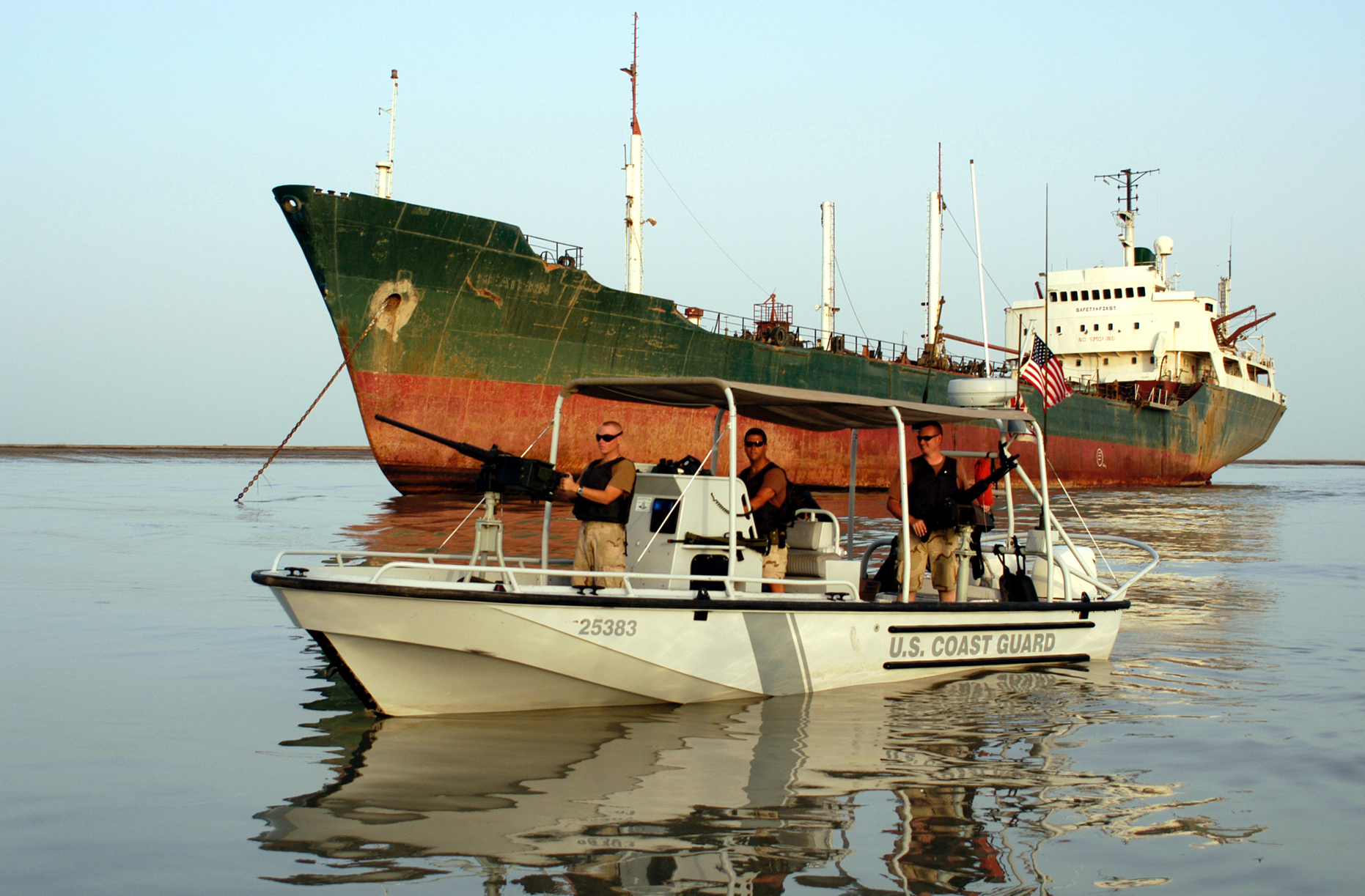 UMM QASR, Iraq (May 3, 2003)-- The crew of a U.S. Coast Guard 25-foot transportable port security boat pauses during a patrol of the Khawr 'Abd Allah above Umm Qasr. Crewmembers from PSU 311 include Machinist Mate 3rd Class David Slifka on the .50 caliber machinegun, coxswain Port Securityman 2nd Class Keith Caires, and M-60 machinegunner Boatswain Mate 3rd Class Robert shaw. USCG photo by PA1 John Gaffney